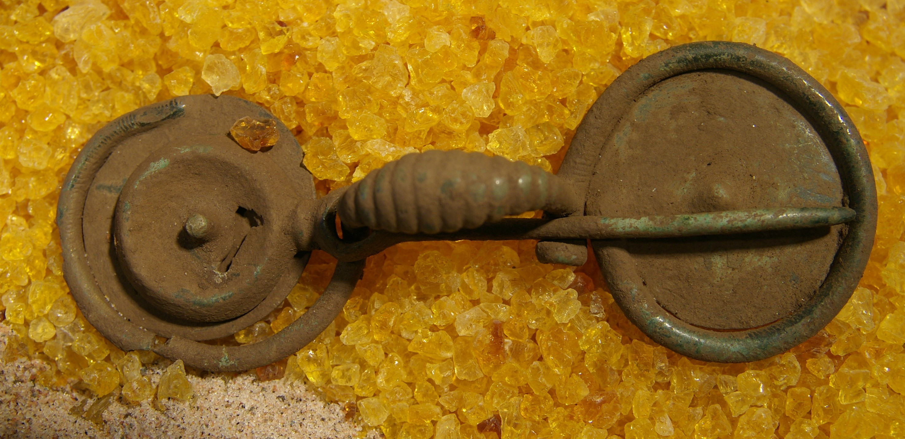 Bronze age fibulae retrieved from the passage grave "Firse sten" during the excavation 2008.